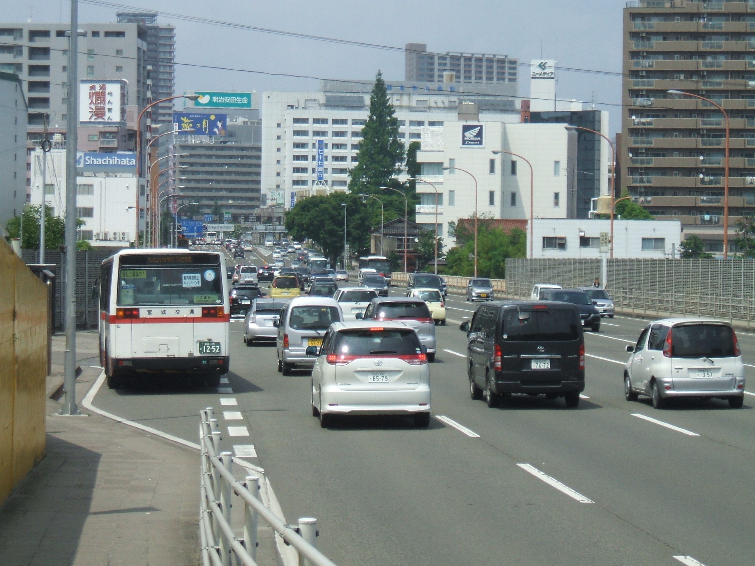 This is landscape of Ataho-O-hashi and Sendai City Center.